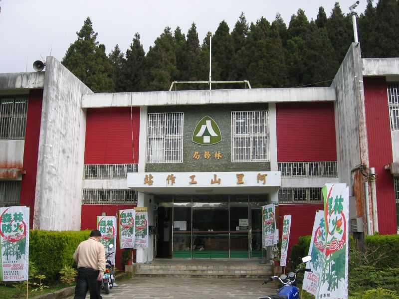 Alishan Working Station, Chiayi Forest District Office, Forestry Bureau, COA.